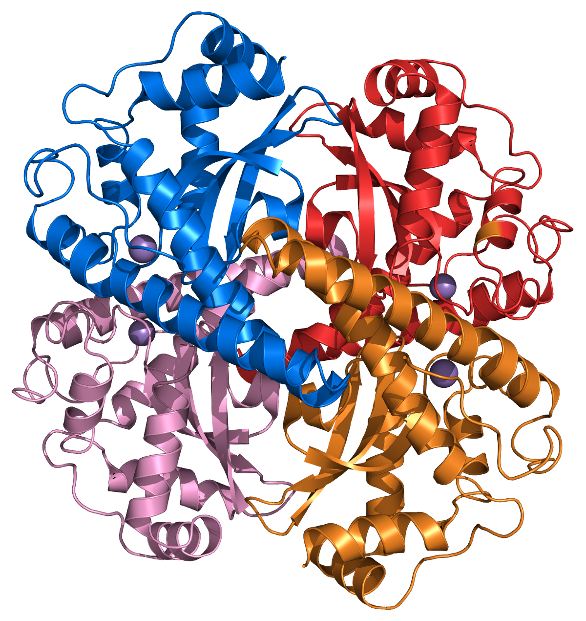 Ribbon diagram of a human superoxide dismutase 2 (SOD2) tetramer. Manganese ions shown in violet. Created using PyMOL ( and GIMP. Optimized using OptiPNG. Legend Manganese